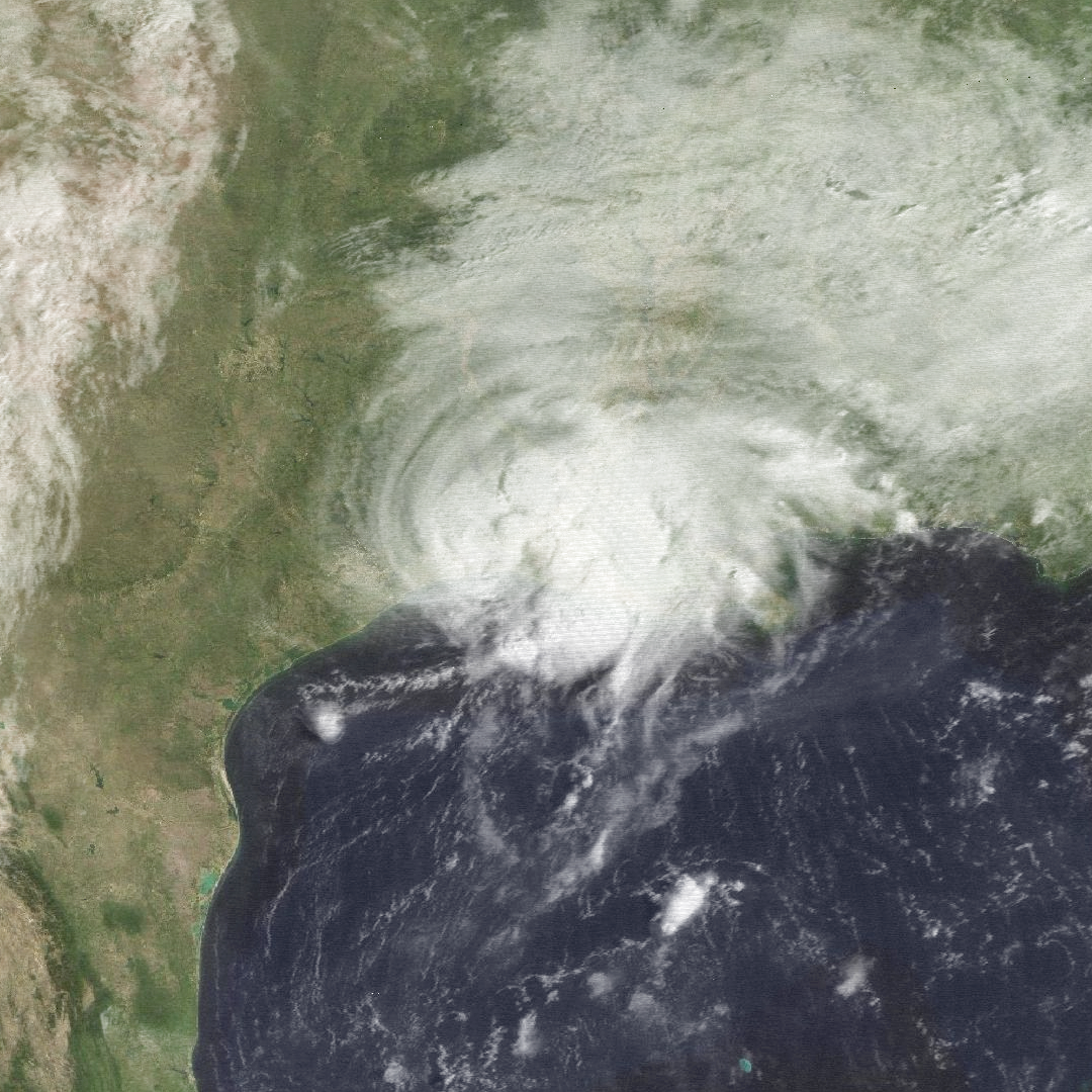 Tropical Storm Chris making landfall in Louisiana on September 11, 1982